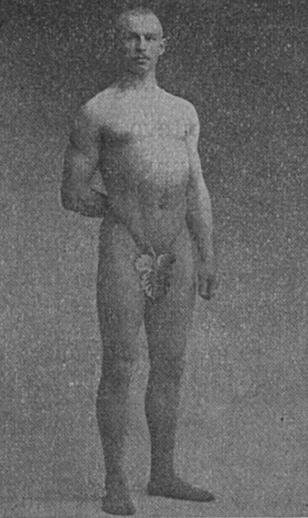 Bruno Zilliacus (1877–1926), winner of the first beauty pageant in Finland, in 1903